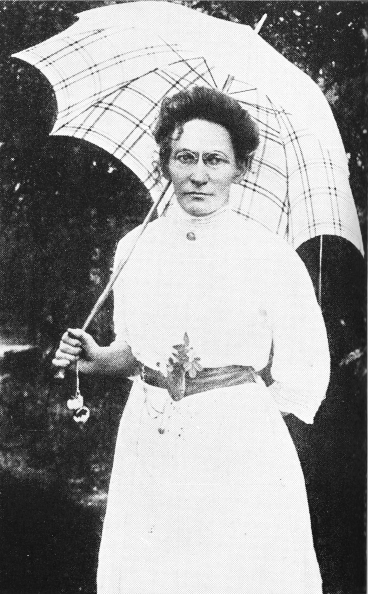 Photograph of the Finnish linguist and educator Hanna Granström (1867–1932).